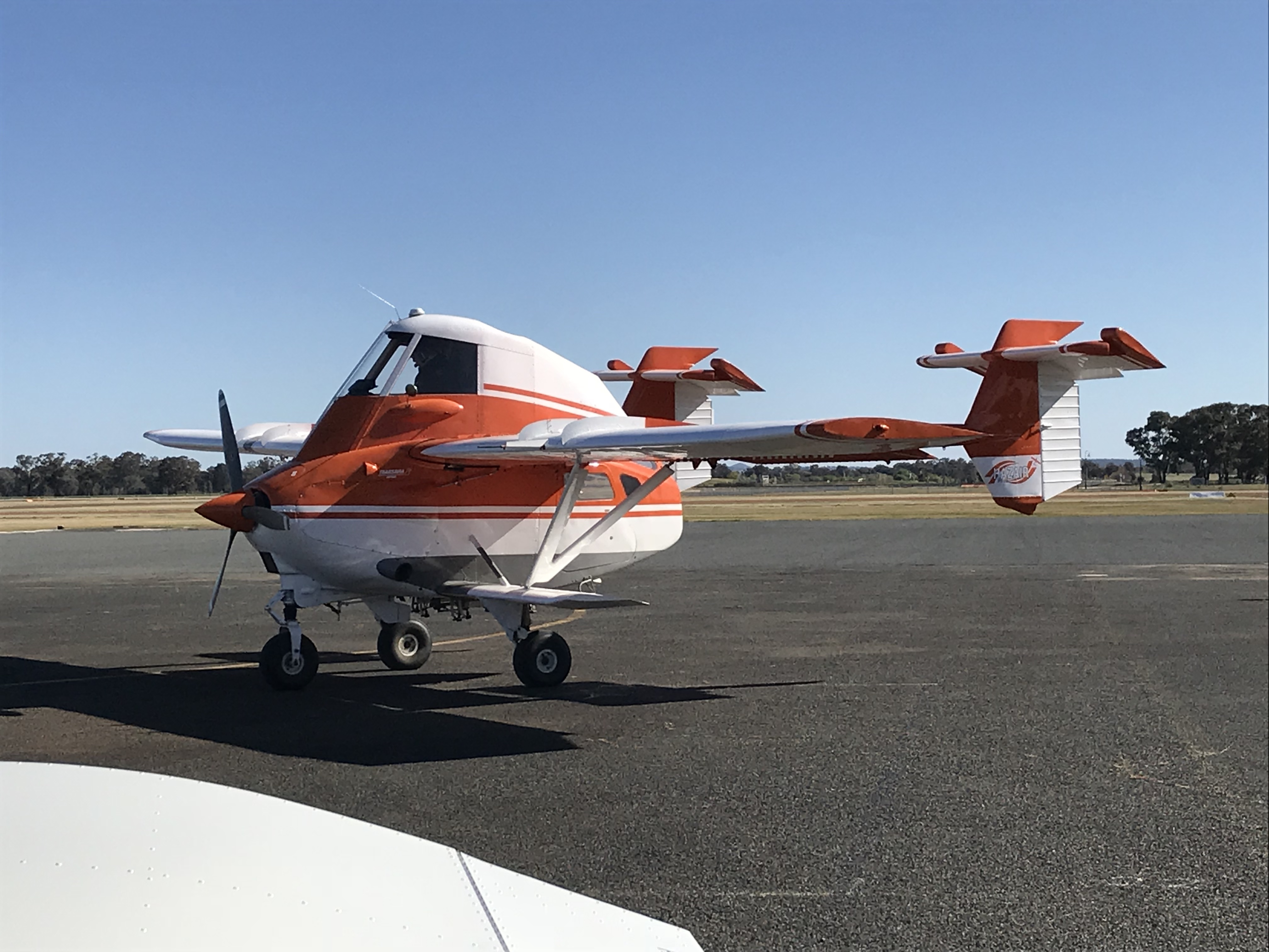 Hazair's VH-TRT visiting Temora October 2018.